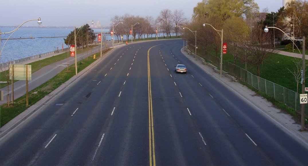 Lake Shore Boulevard, immediately south of the Canadian National Exhibition grounds, looking west.